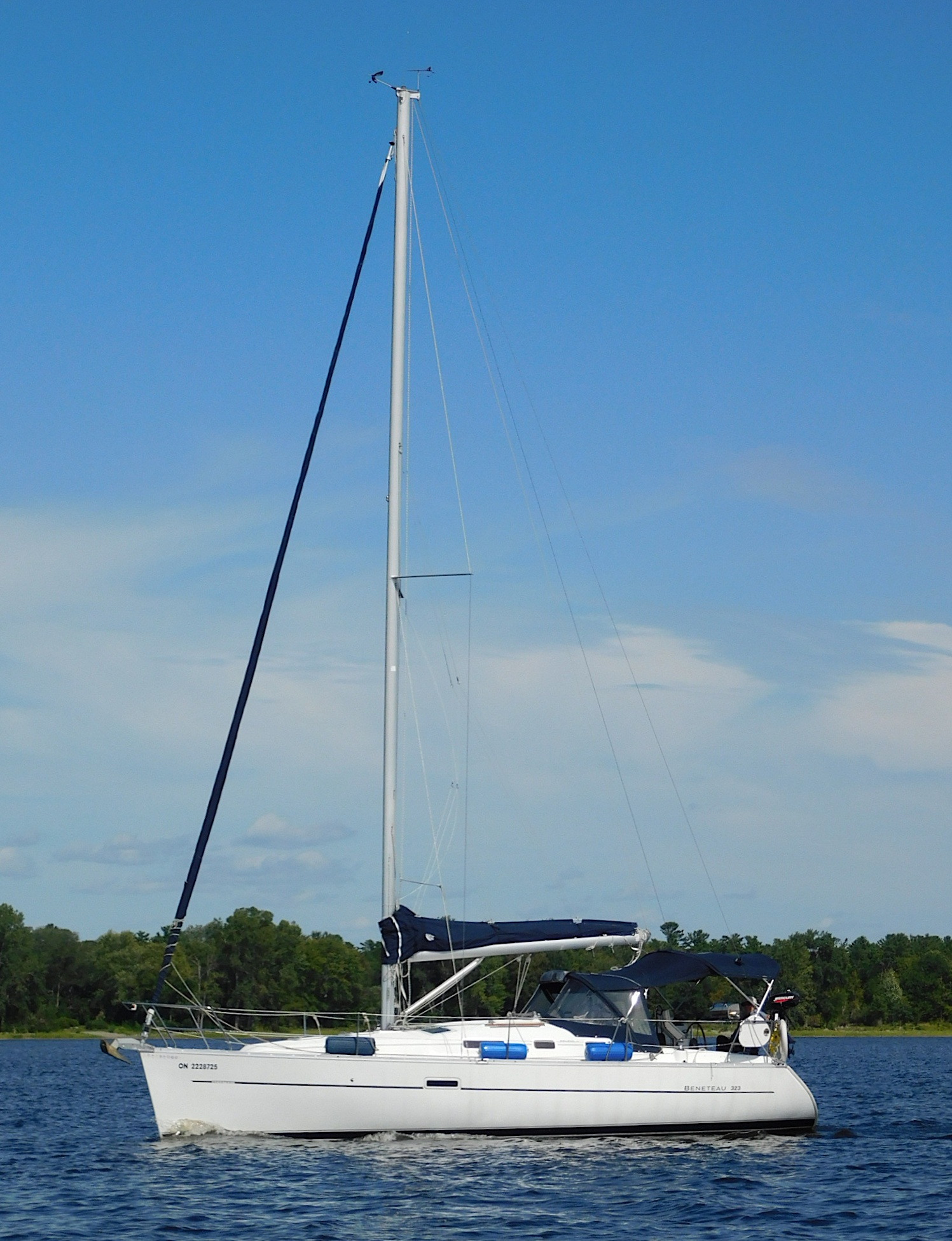 A Beneteau 323 sailboat motoring.